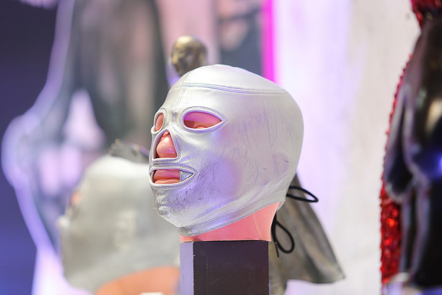 The original mask of El Santo on display at a Mexico City government event